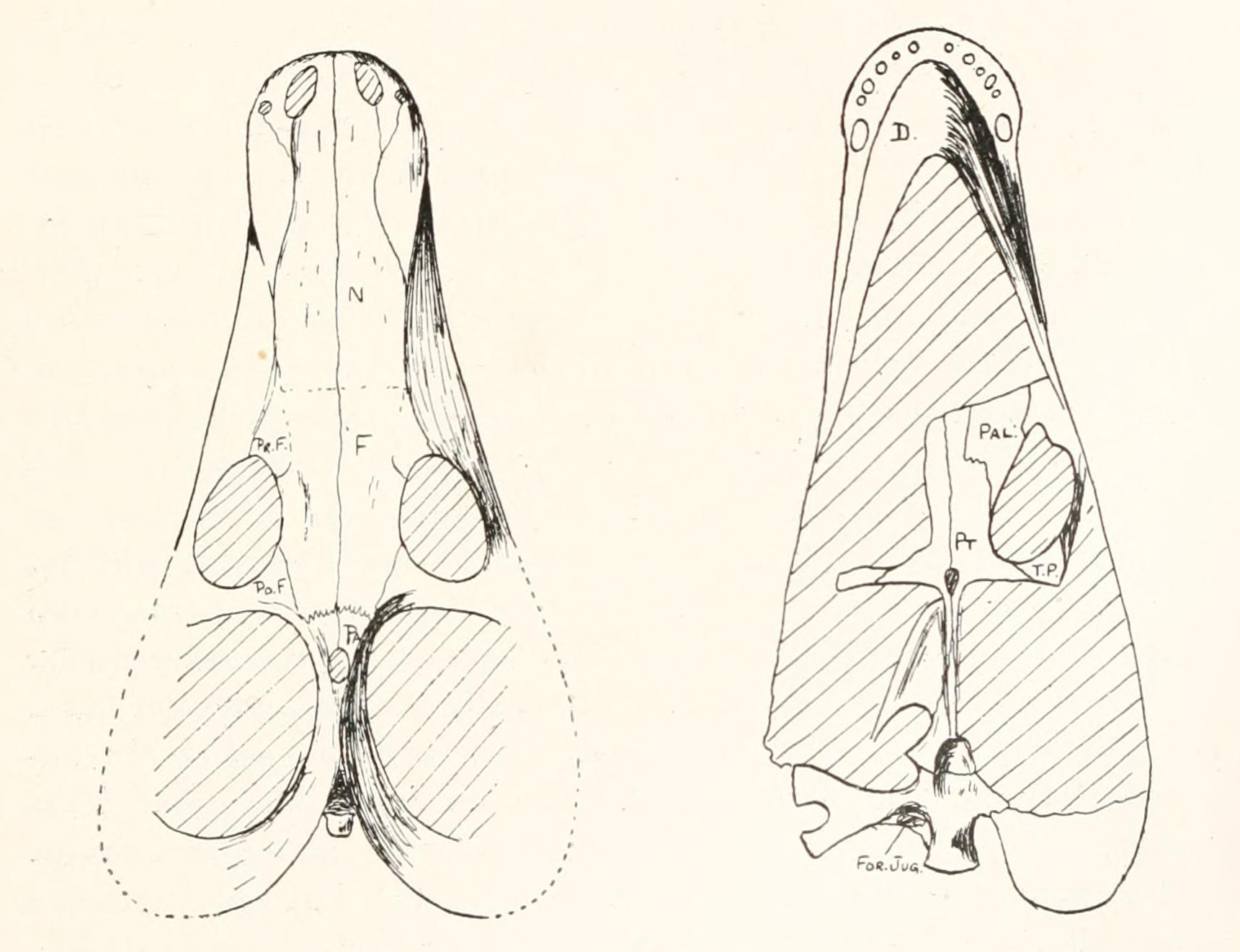 Illustration of the skull of Alopecognathus minor in dorsal (left) and ventral (right) views from in "Some new carnivorous Therapsida, with notes upon the braincase in certain species" by Sydney H. Haughton (Annals of the South African Museum 12: 175-216).